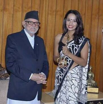 Priyanka Karki felicitated by Prime Minister Sushil Koirala after winning Best Actor (Female) at the NFDC National Film Awards 2071